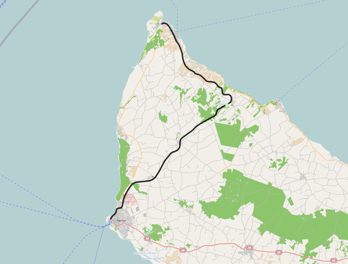 Railway line Rønne - Sandvig